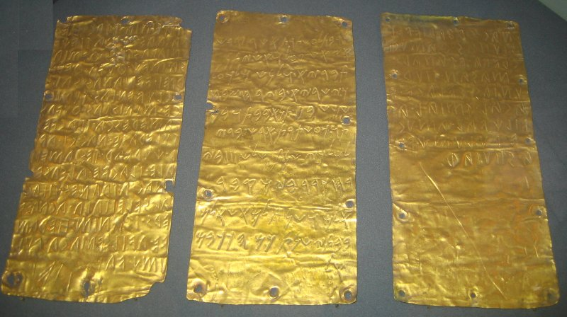 "Pyrgi tablets". Laminated sheets of gold with a treatise both in Etruscan and Phoenician languages. From Etruscan Museum in Rome (Museo di Villa Giulia).